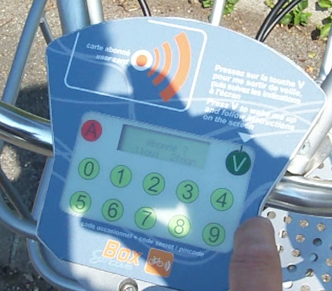 A picture of the RFID/keyboard Smoove box